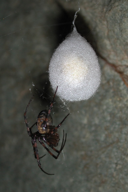 Meta sp. with egg sac, from Appalachia.